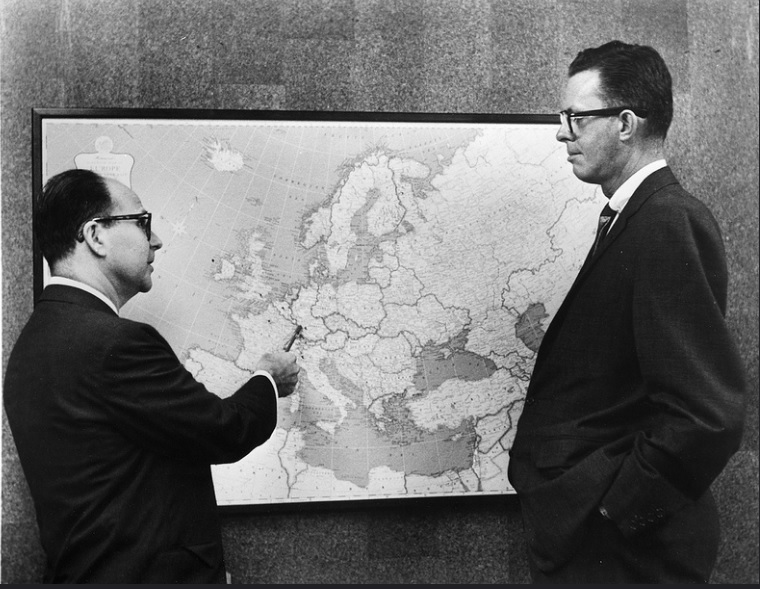 Harold Burson and Bill Marsteller discuss expansion into Europe